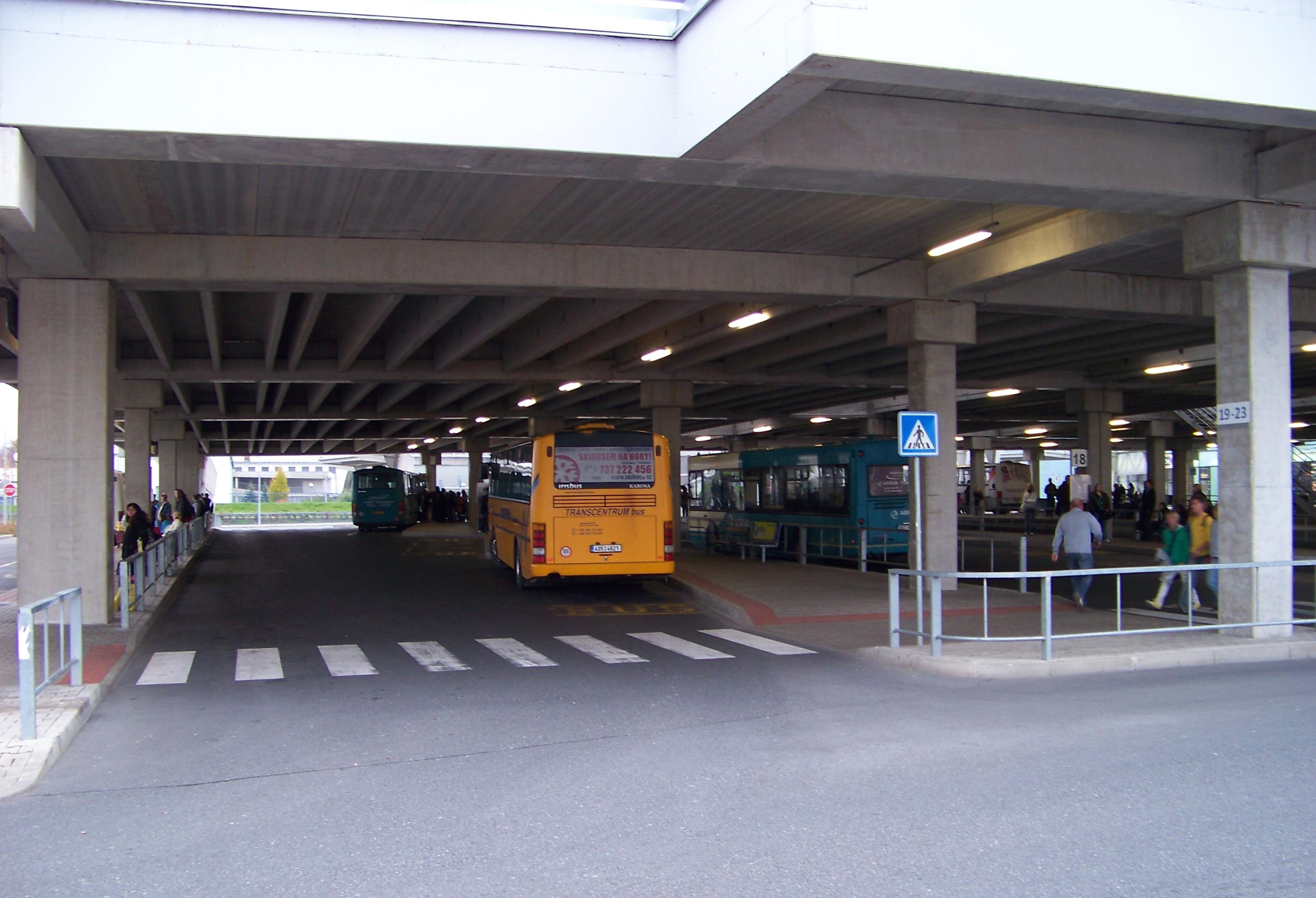 Mladá Boleslav, Central Bohemian Region, the Czech Republic. A bus station.